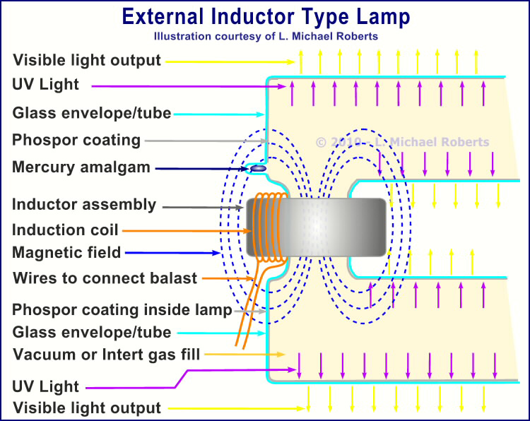 Diagram showing labelled components of a rectangular style external inductor type Magnetic Induction Lamp (electrodeless lamps, induction lamp, induction light).